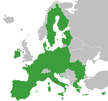 Locator map for the European Union and the Vatican City